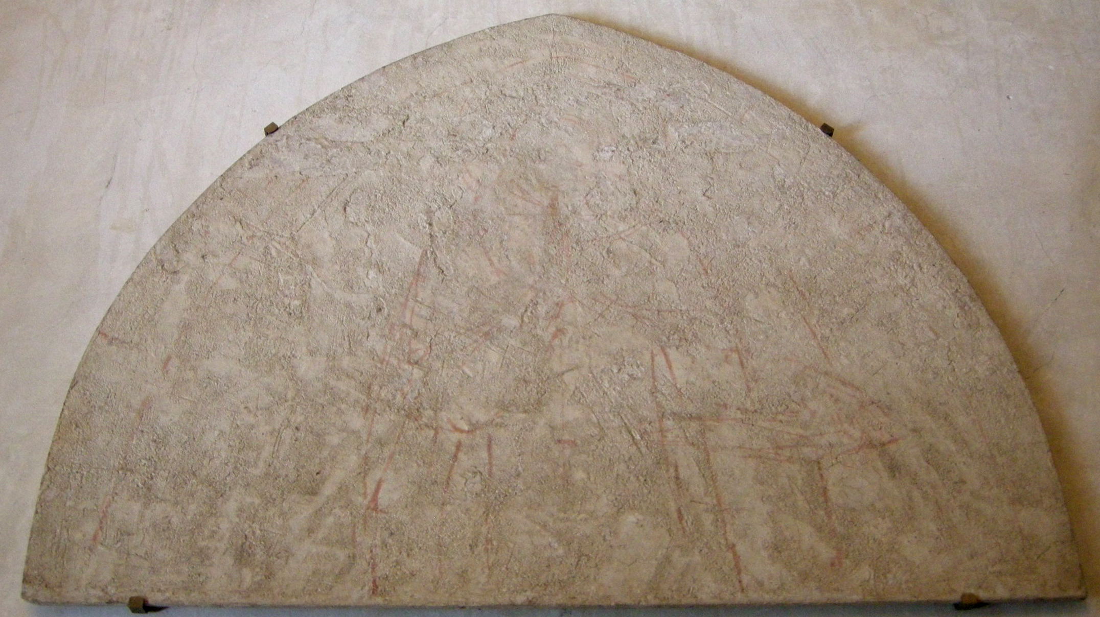 Beato Angelico's Lunette